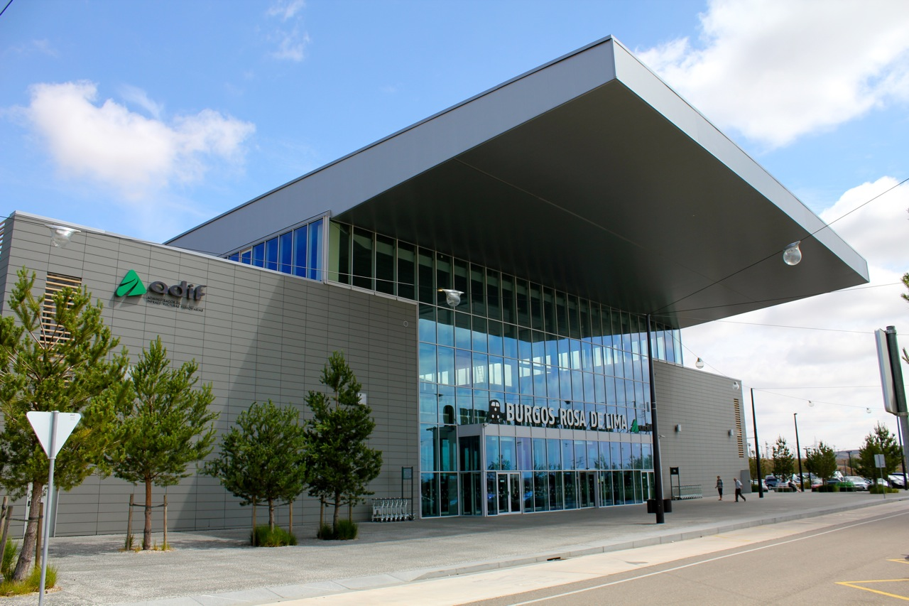 Burgos Train Station (Burgos, Castile and León, Spain).